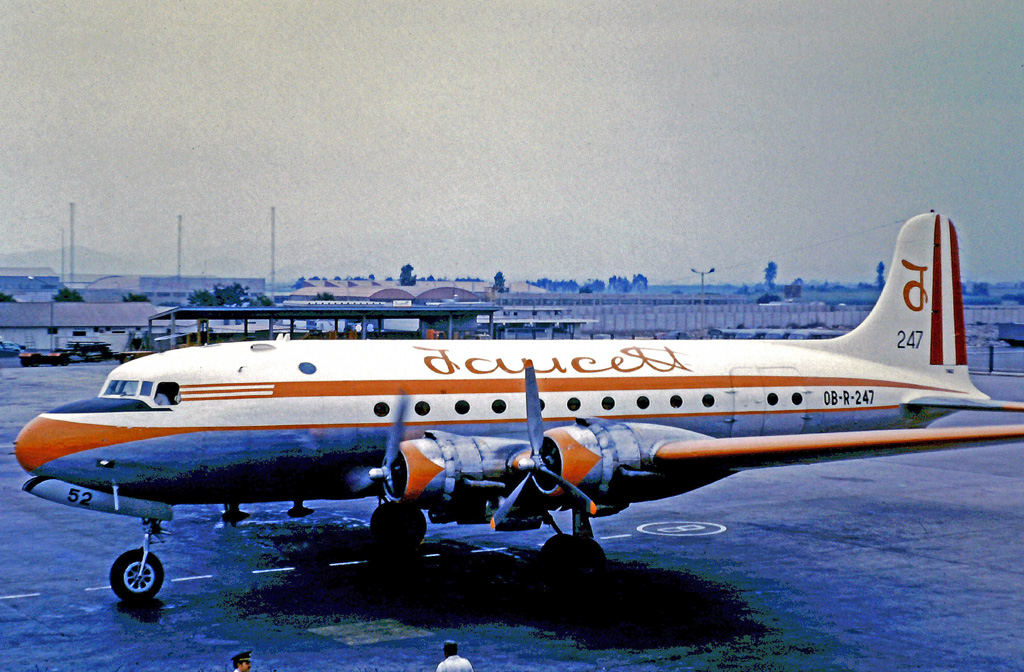 Douglas DC-4 (C-54A) OB-R-247 of Faucett Peru at Lima Airport in 1972